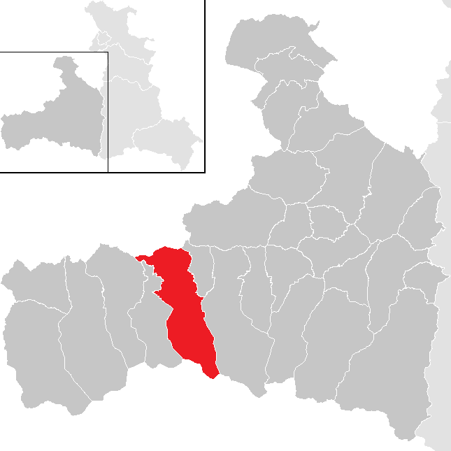 District Zell am See